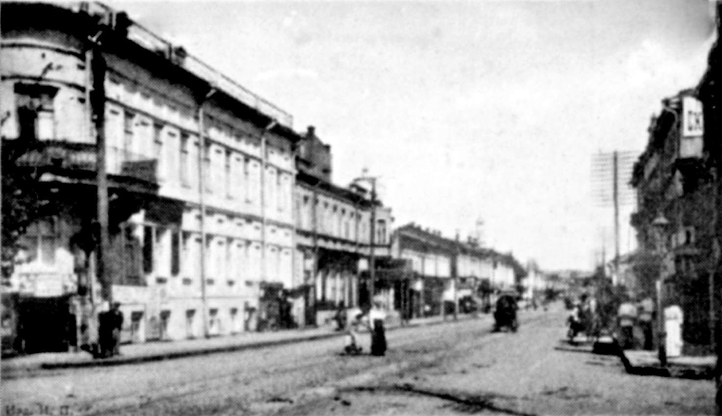 Old picture